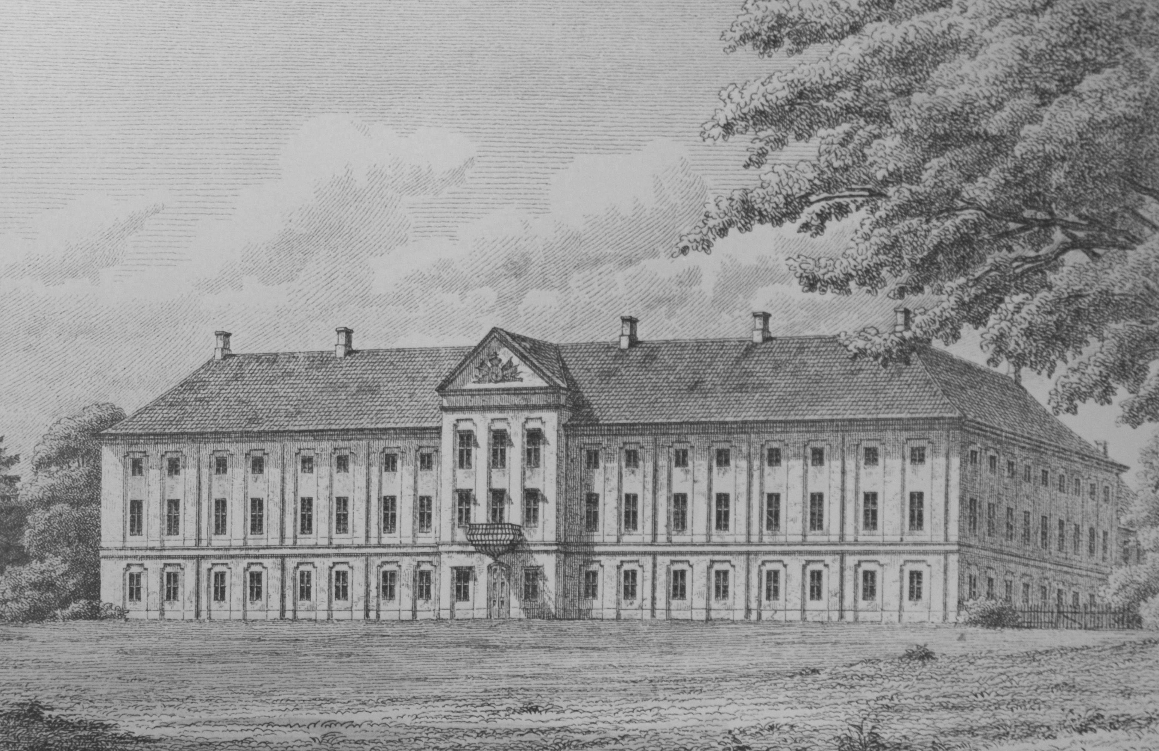 Drawing of Augustenborg Palace, 19th. century